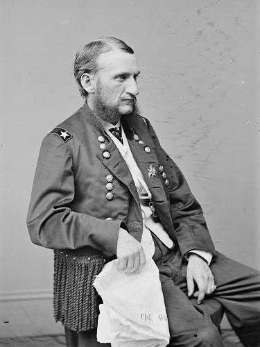 Brig. Gen. Judson Kilpatrick, Library of Congress Civil War Collection